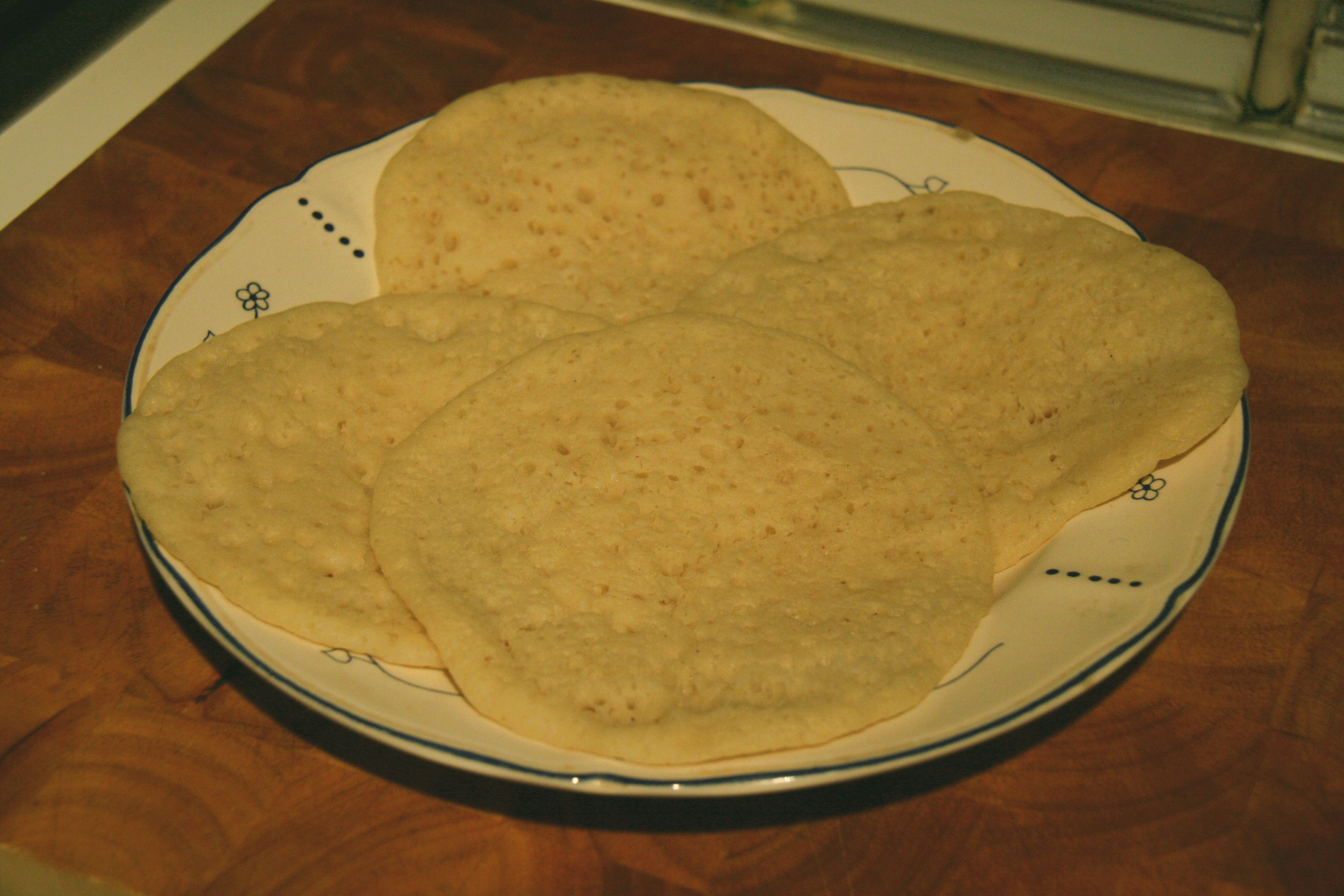 Baghrir Beghrir, or Rghayif